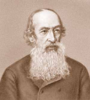 Bestuzhev-Riumin Konstantin Nikolajevich (1829—1897), Russian historian